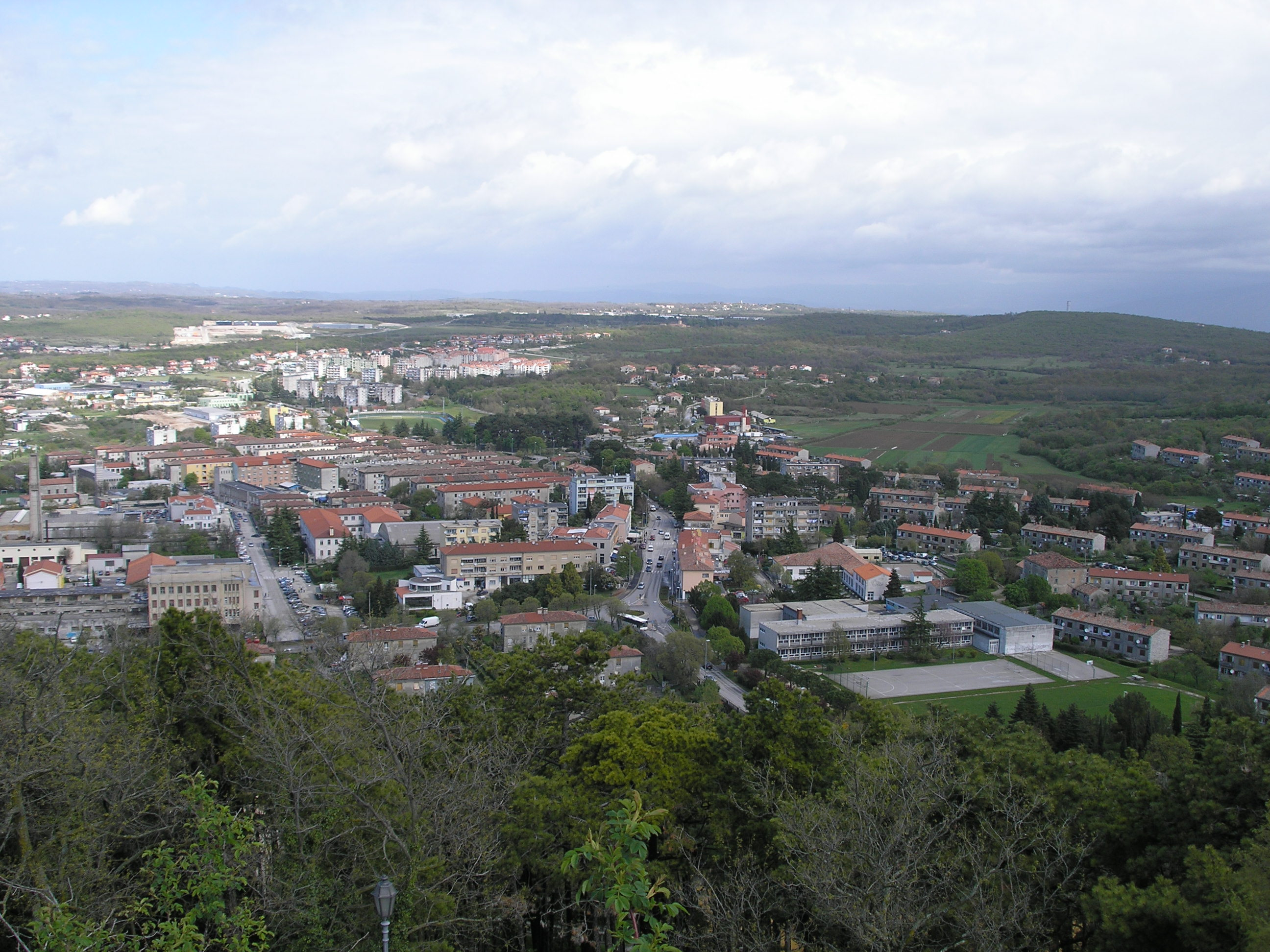 Labin seen from the Old Town